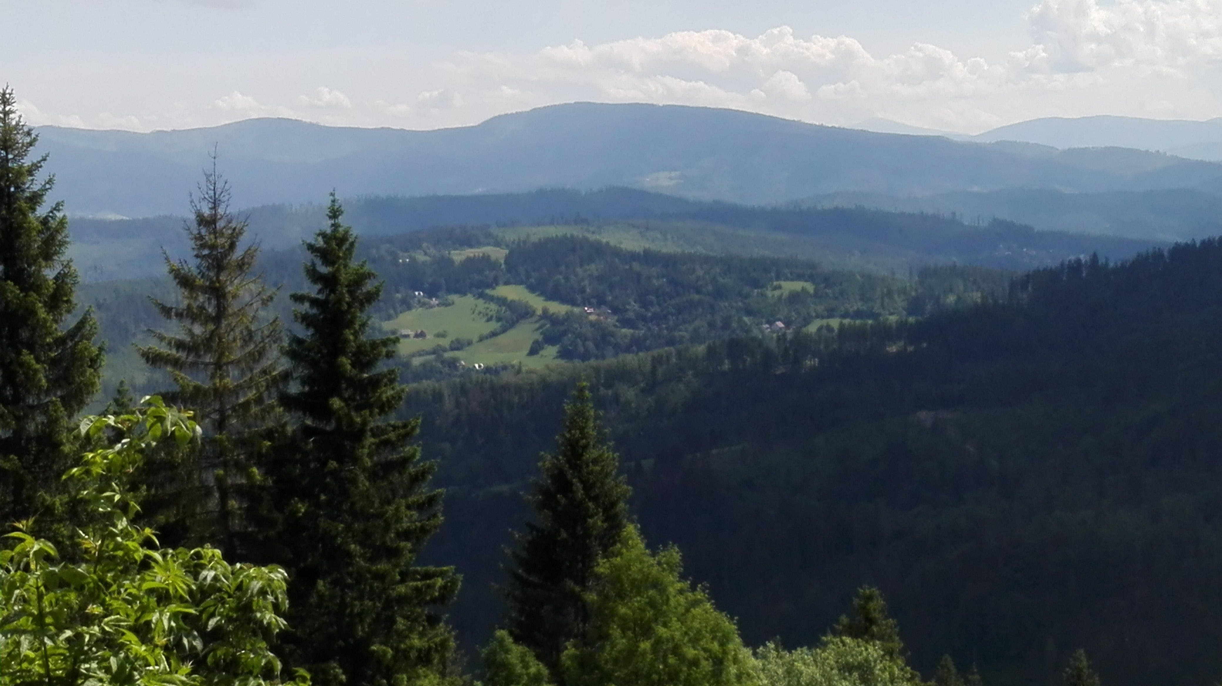 View from Stożek Wielki